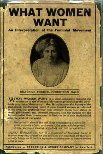 Beatrice Forbes-Robertson Hale wrote this in 1914